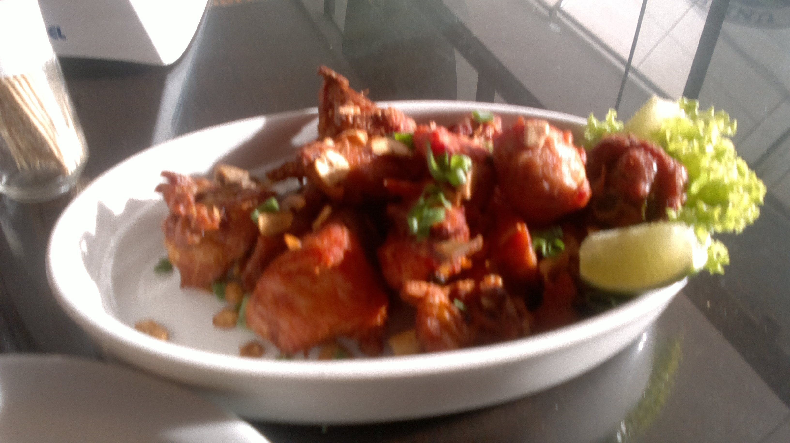 Frango.a.passarinho.Dish.02